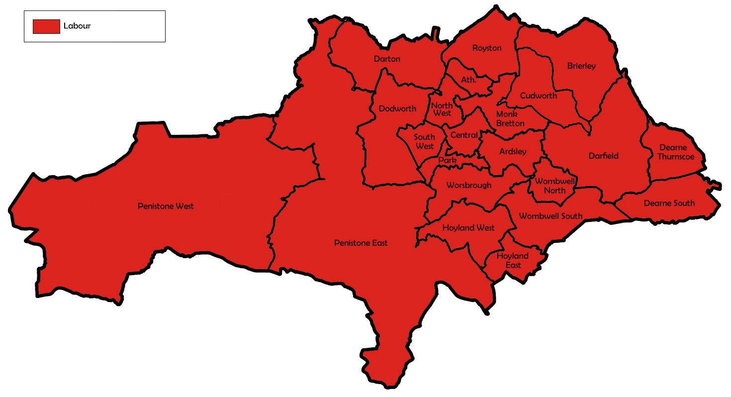 Ward map of Barnsley council with political colouring for the 1995 election.